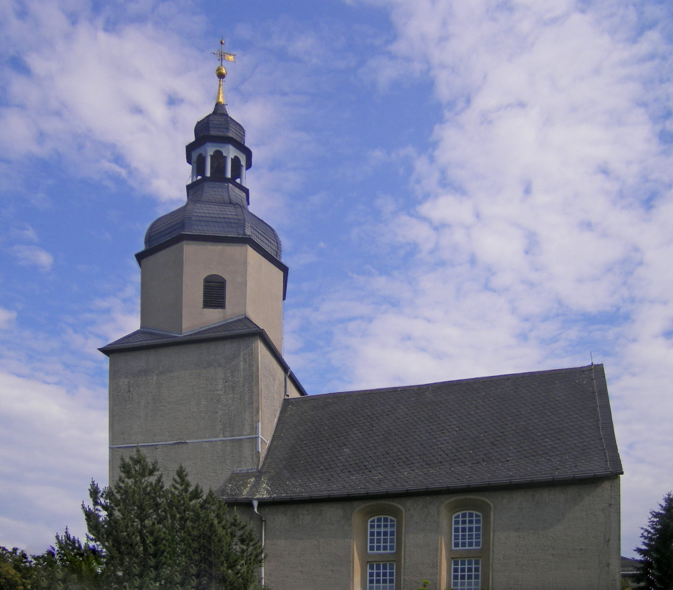 This picture shows the church of the village vollmershain near Schmölln/Thuringia in Germany.